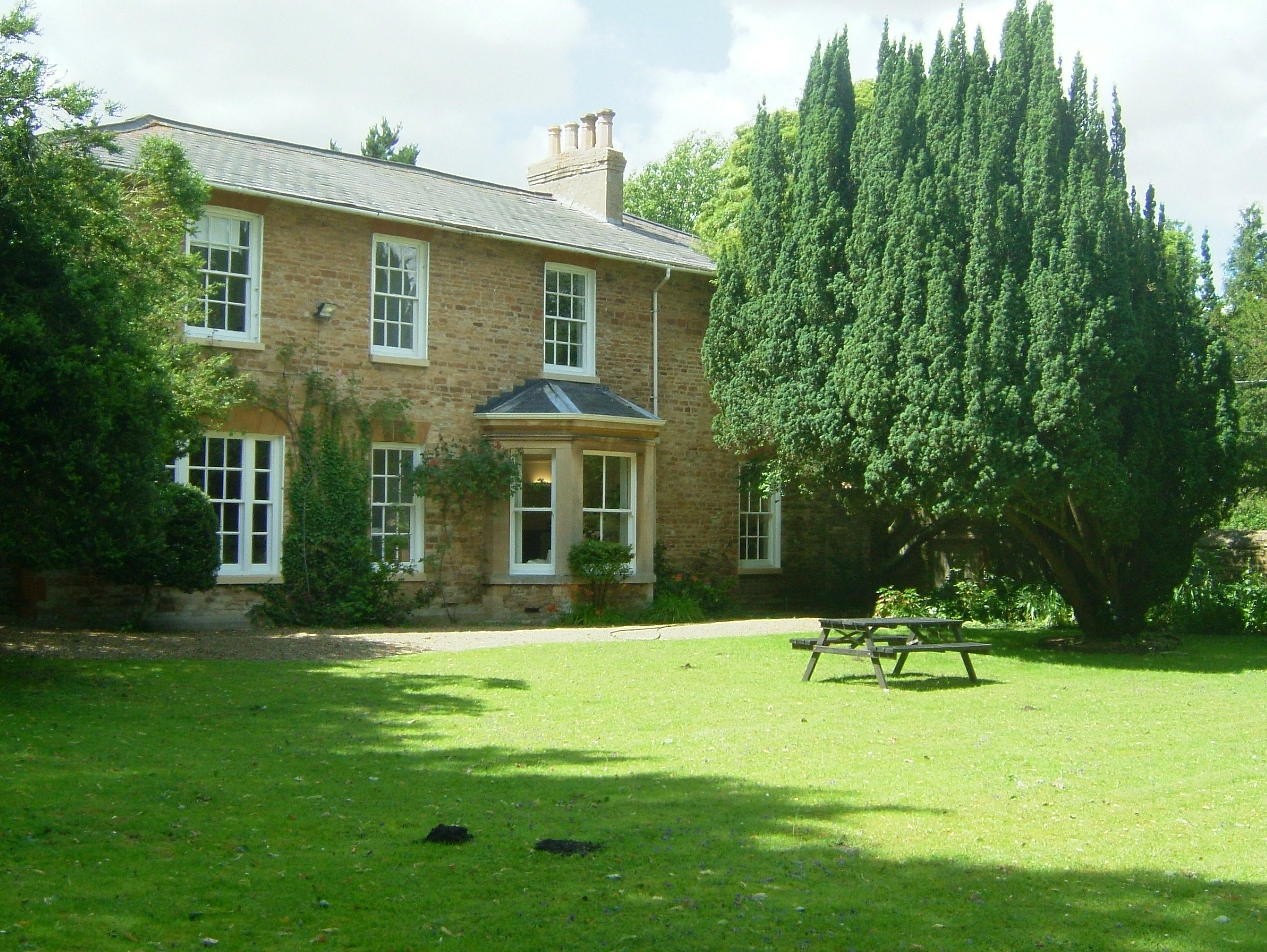 The Old Rectory, now occupied by a firm of architects, PHP (Peter Haddon Partners). Image taken with permission on private property